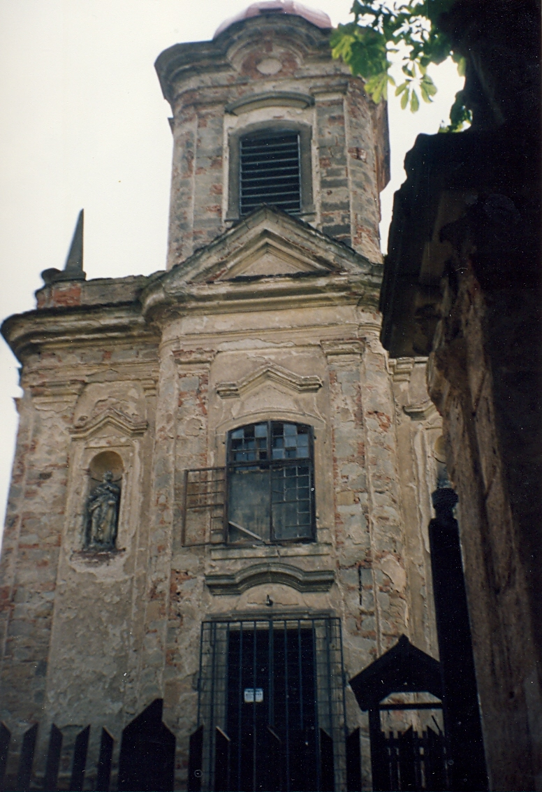 Church in Bílenec